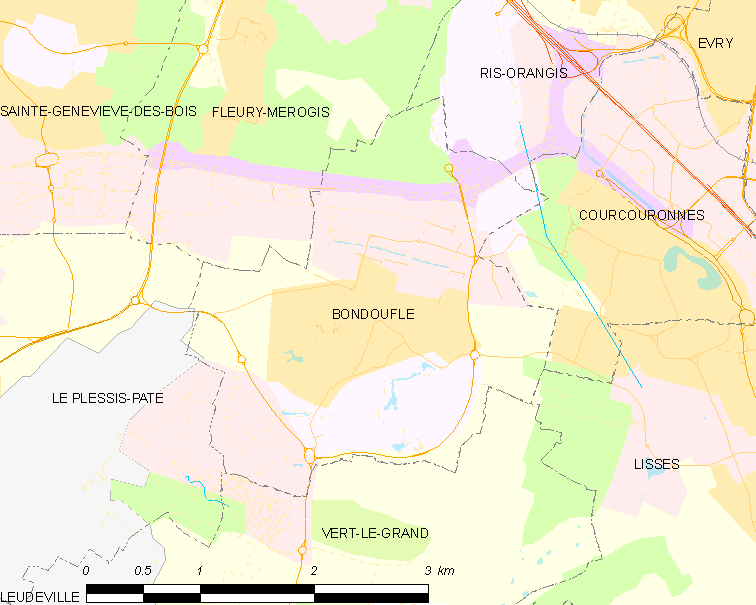 Map of French municipality Bondoufle